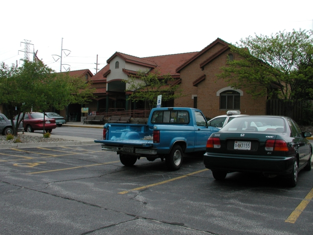 Dune Park Station and NICTD offices